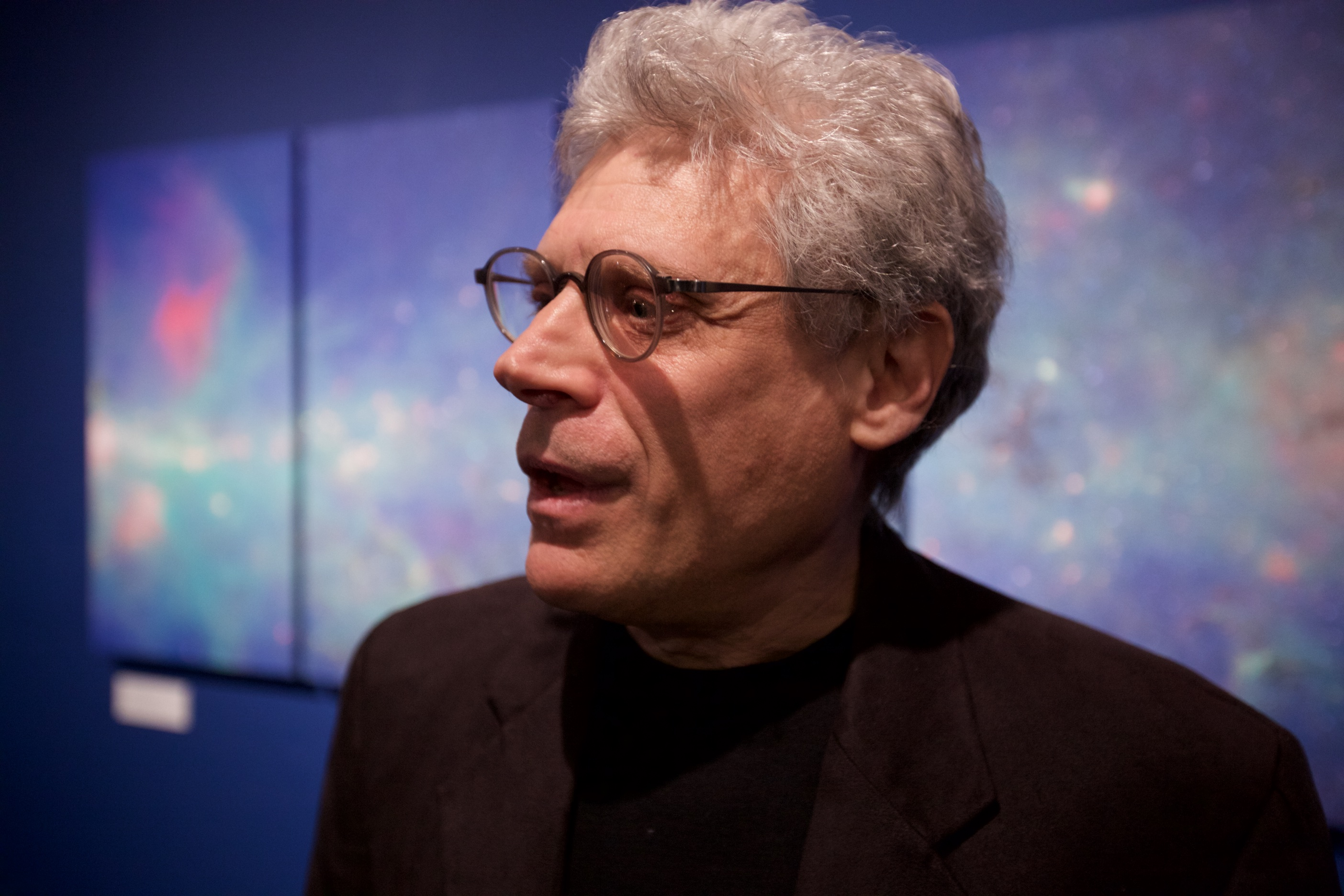 David Em presenting "The Shape of the Universe" in Pasadena on November 30, 2011